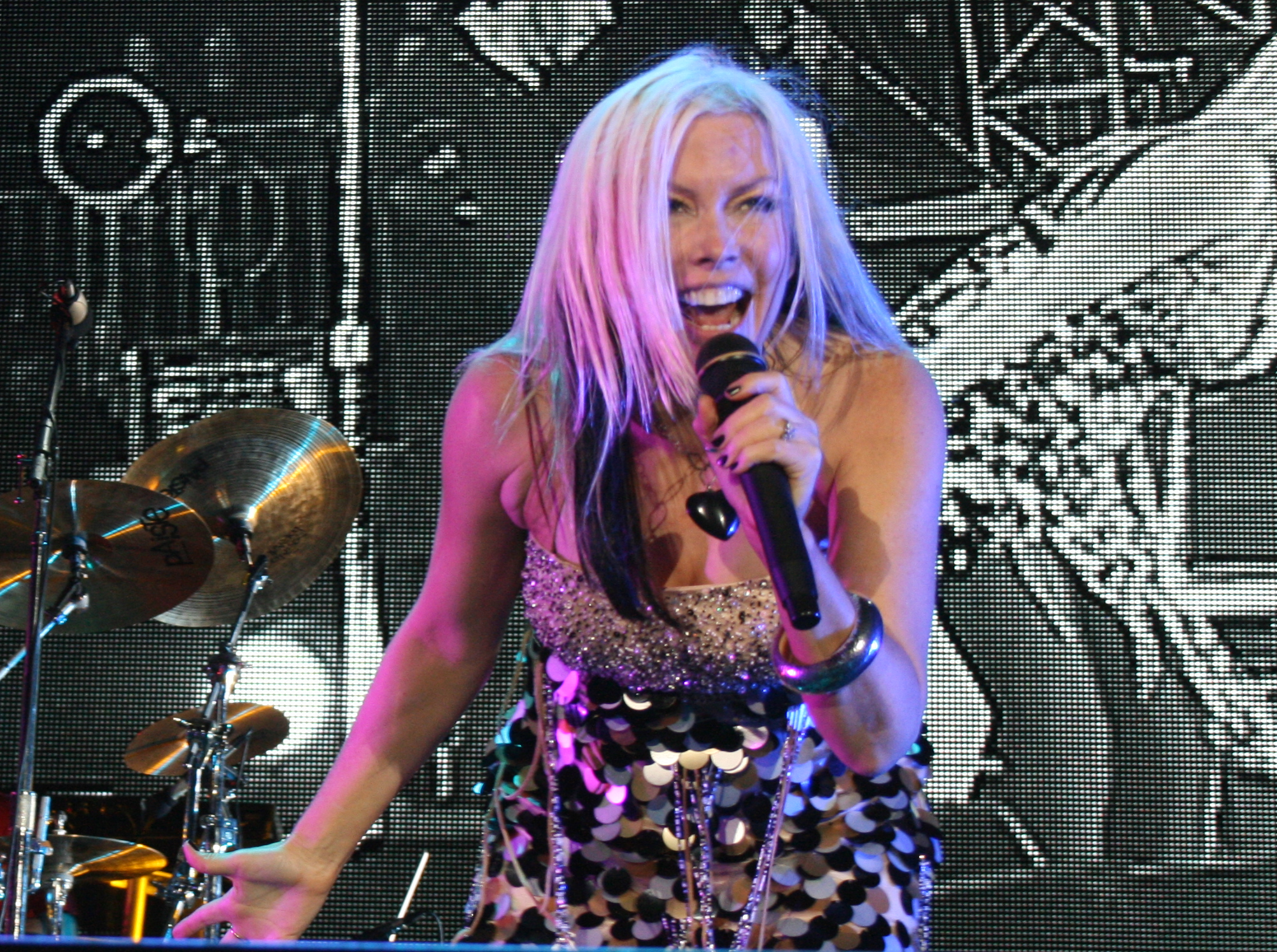 American singer Terri Nunn performing with her reformed band "Berlin", at Oracle OpenWorld.